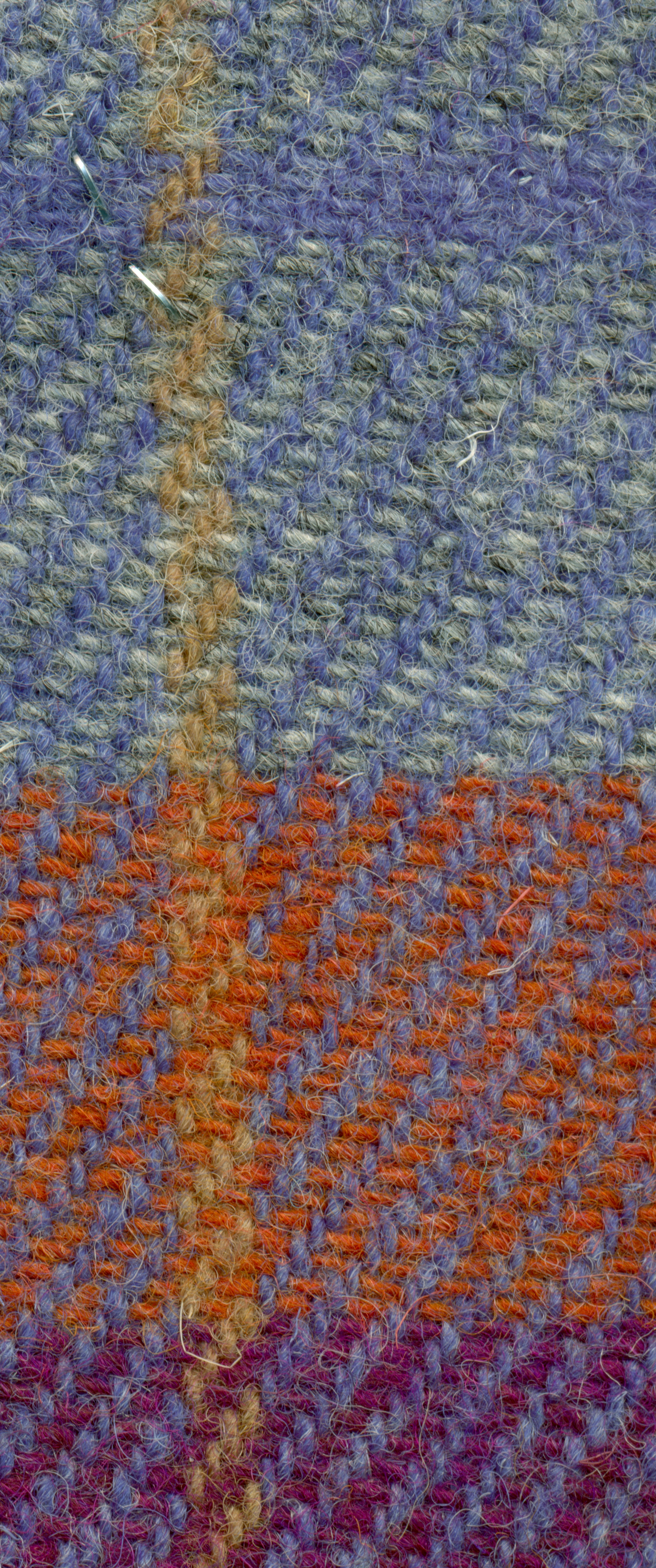 2D-scan of a cloth sample of Harris Tweed (checks). Handwoven woolen cloth from the Outer Hebrides.